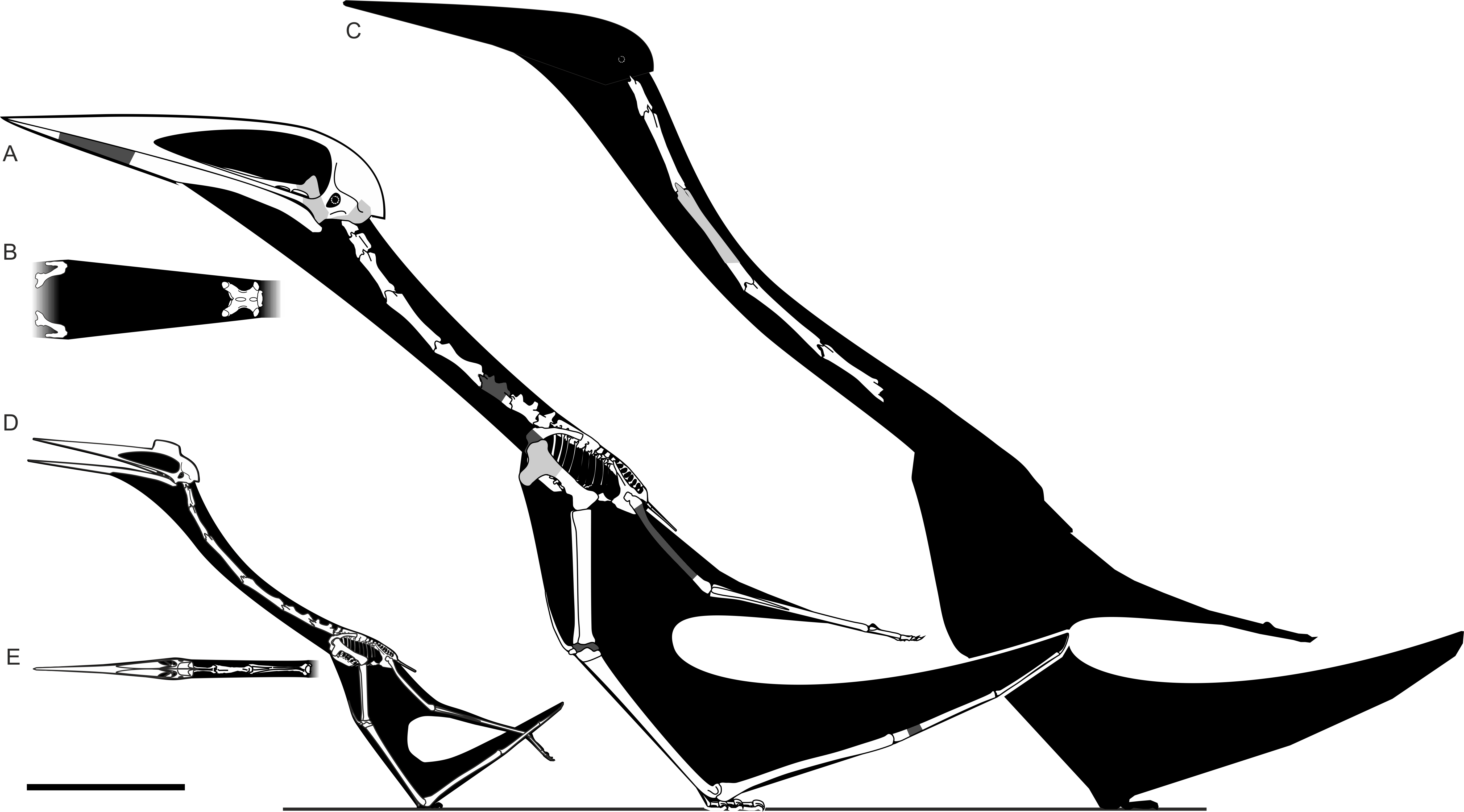 Speculative skeletal reconstructions of Hatzegopteryx sp. and Arambourgiania philadelphiae (estimated wingspans ≥10 m—Frey & Martill, 1996; Buffetaut, Grigorescu & Csiki, 2003) to show discrepancy in neck length alongside a ‘typical’ azhdarchid body plan. (A) Hatzegopteryx skeleton in lateral aspect; (B) dorsal view of EME 315 and FGGUB R1083 jaw elements, proportionate to actual size, suggesting Hatzegopteryx bore a wide, as well as relatively short, neck construction (soft-tissue outline in black). Jaw width after Buffetaut, Grigorescu & Csiki (2003); (C) reconstructed Arambourgiania philadelphiae cervicals III–VII in lateral aspect; (D) 4.6 m wingspan Q. sp. skeleton in lateral aspect; (E) Q. sp. cervical vertebrae III–V and skull in dorsal view; Note how the neck length of Hatzegopteryx is similar to this much smaller pterosaur. H. thambema holotype (FGGUB R1083) and undescribed referred elements are shown in (A); known elements of A. philadelphiae (UJA JF1) indicated in white shading in (C). Scale bar represents 1 m.